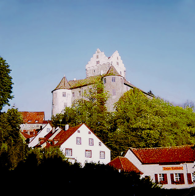 Castle of Meersburg, Germany, 1978